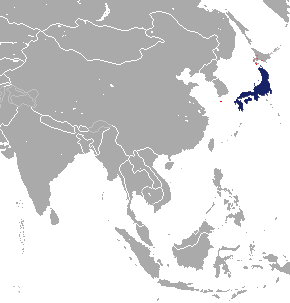 Dsinezumi Shrew (Crocidura dsinezumi) range (blue — native, red — introduced)